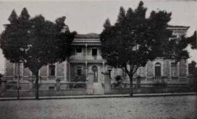 Methodist mission school organized by Martha Watts in 1904 in Belo Horizonte, Brazil